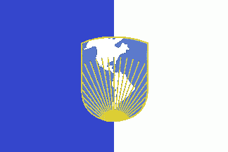 Flag of Inter-American Development Bank.